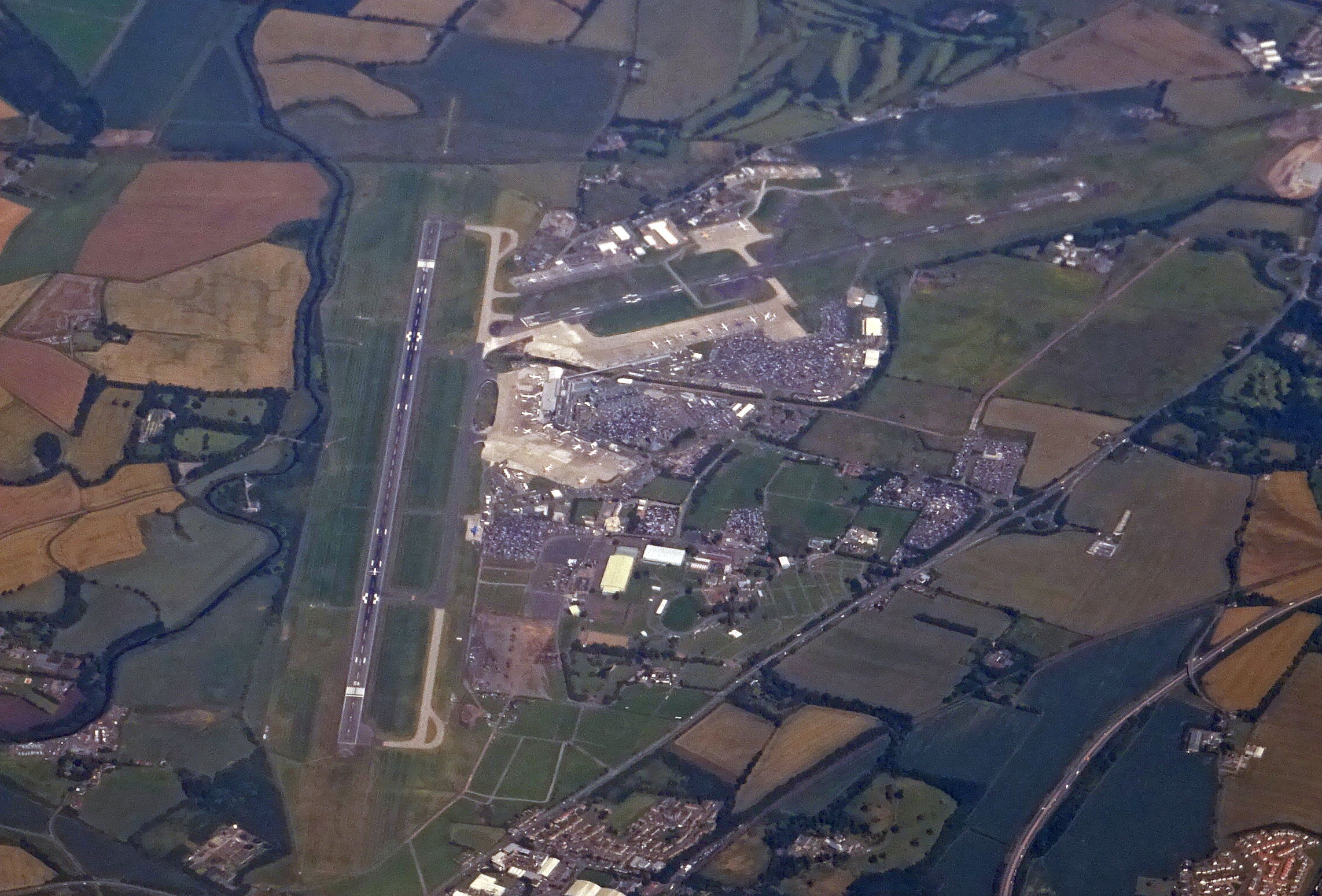 EDI AIRPORT FROM FLIGHT ORY-KEF 757 ICELANDAIR TF-FIK